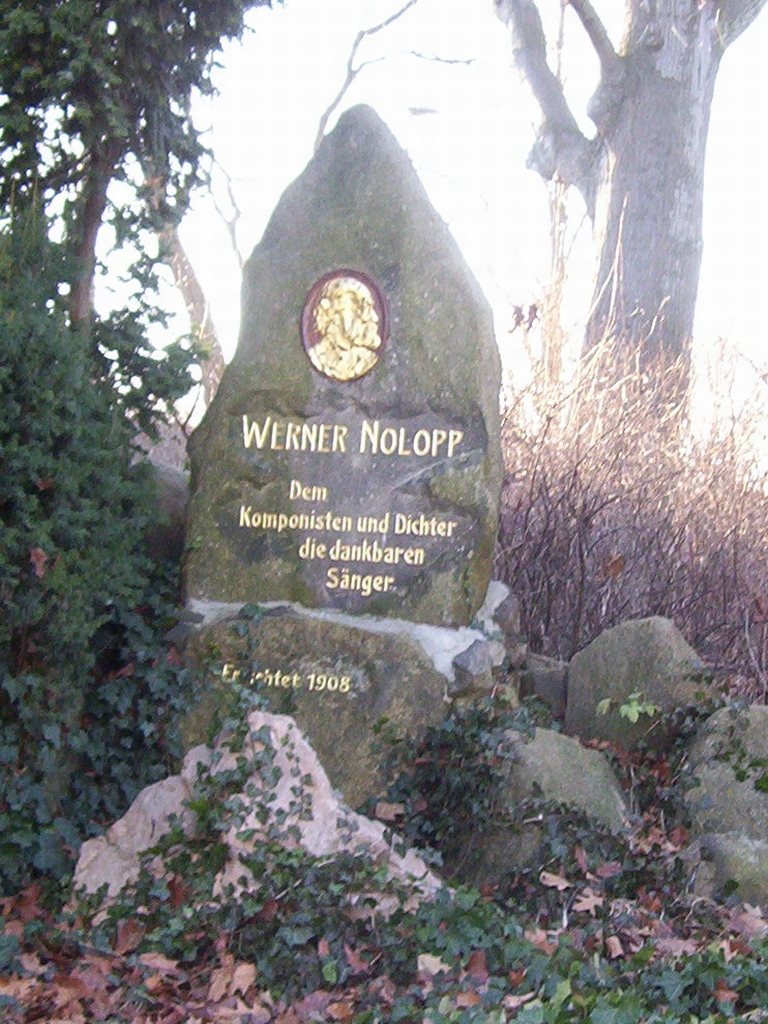 Gravestone in memory of Werner Nolopp (1835-1903), german composer of romantic music, conductor, music educator. The monument, erected in 1908 in Aken/Elbe, Germany is made of an erratic block from the ice age.